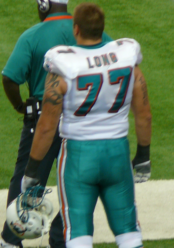 If used somewhere other than Wikipedia, Nelson, by name.